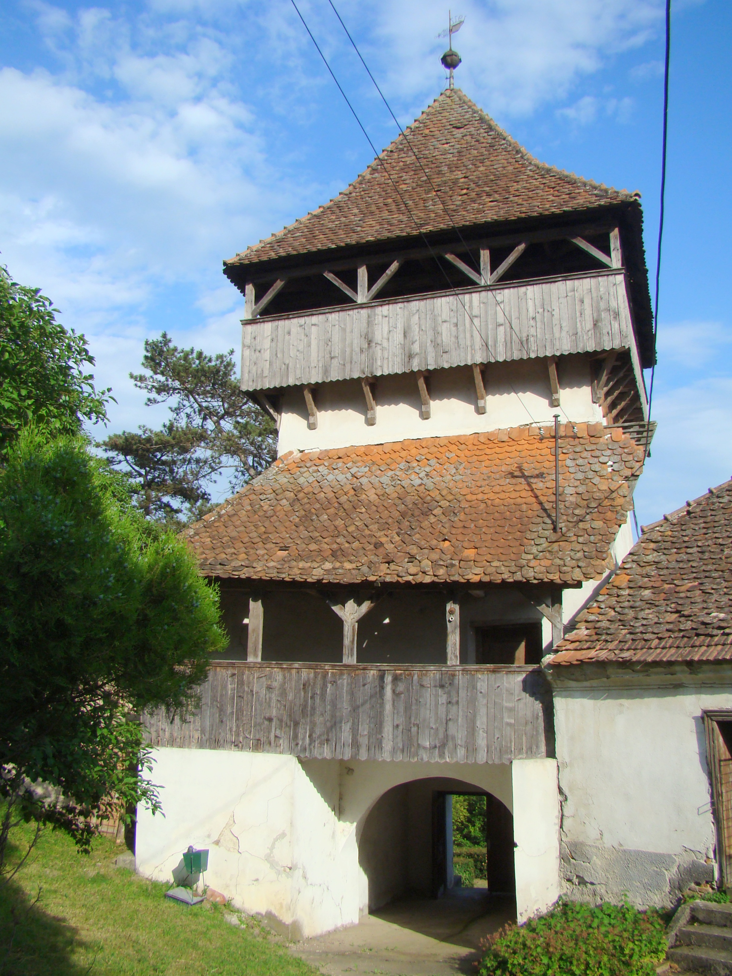 Fortified church in Ungra, Braşov County, Romania